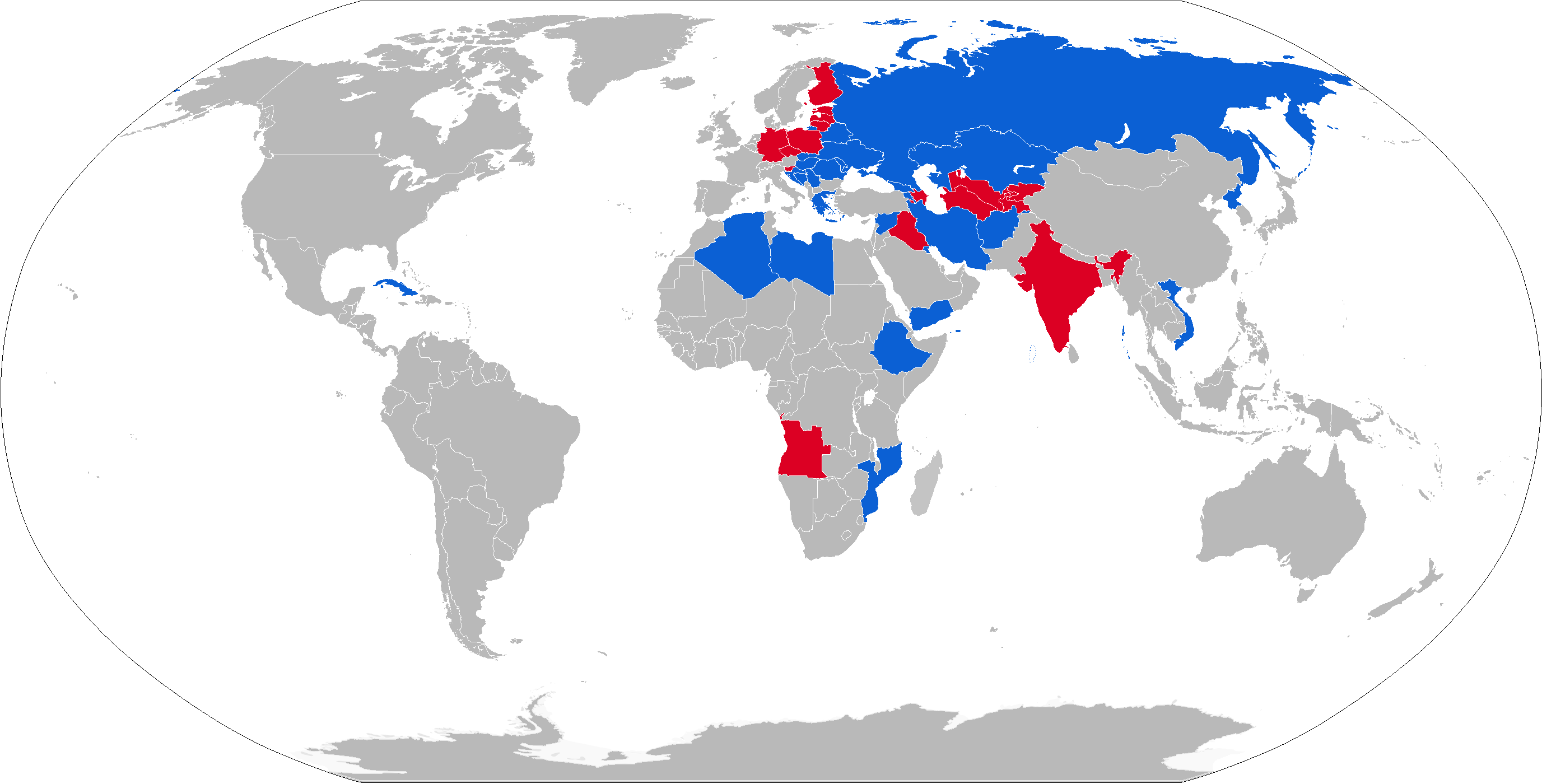 Map with 9K111 operators in blue and former operators in red